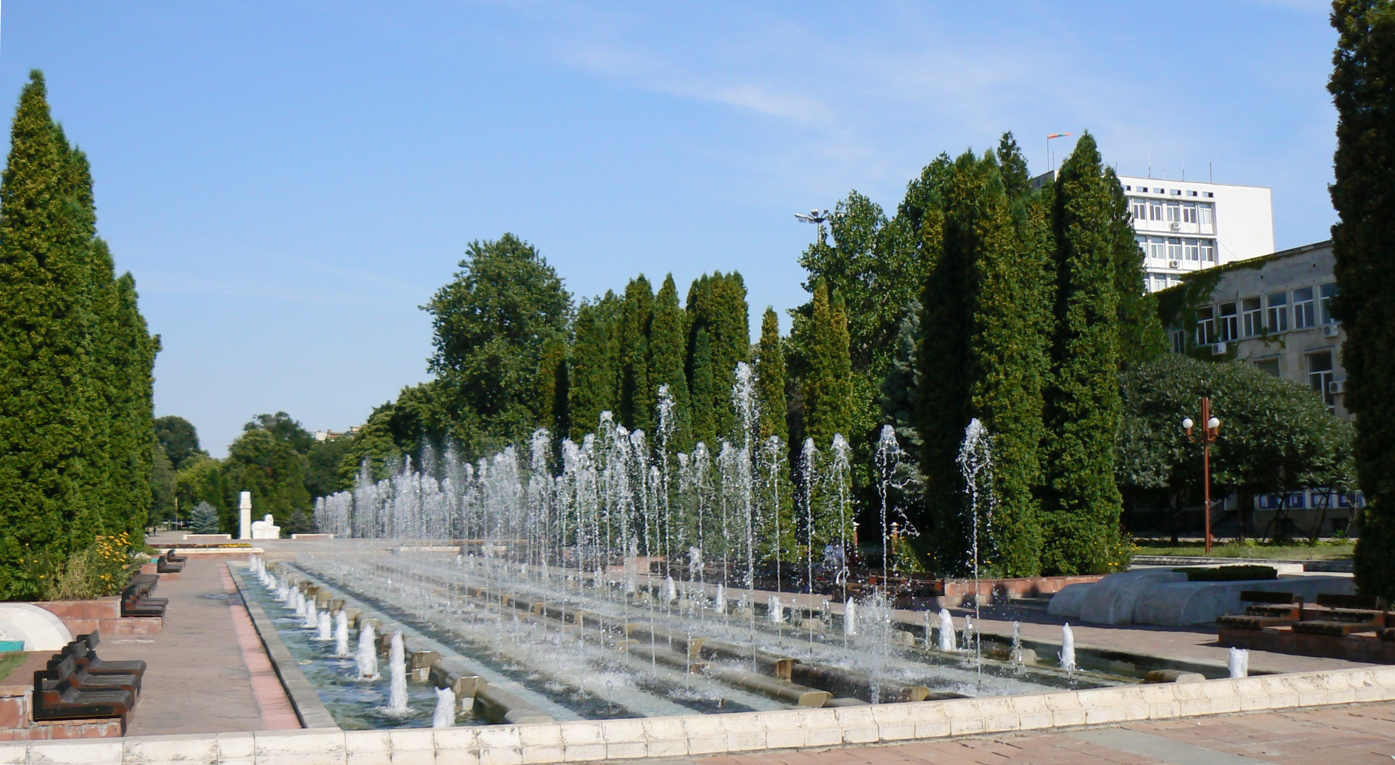 The fountains at the central square in Montana, Bulgaria